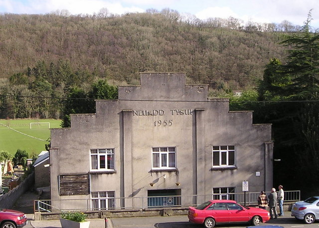 Llandysul Neuadd Tysul Village hall built in 1955, with the park and playing fields beyond. The architect was John Davies, the County Surveyor